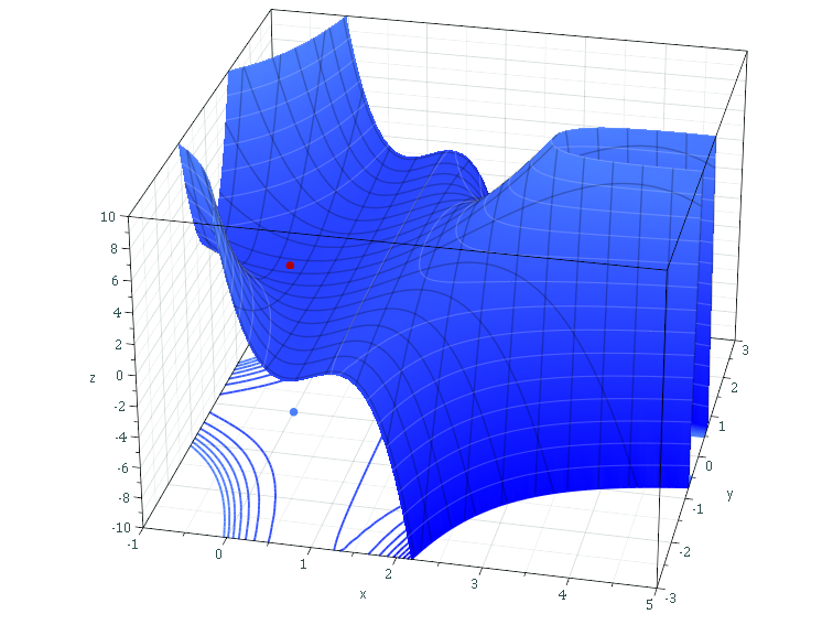 A counterexample to a method for finding global maxima based on critical points. Made by myself with MuPAD.